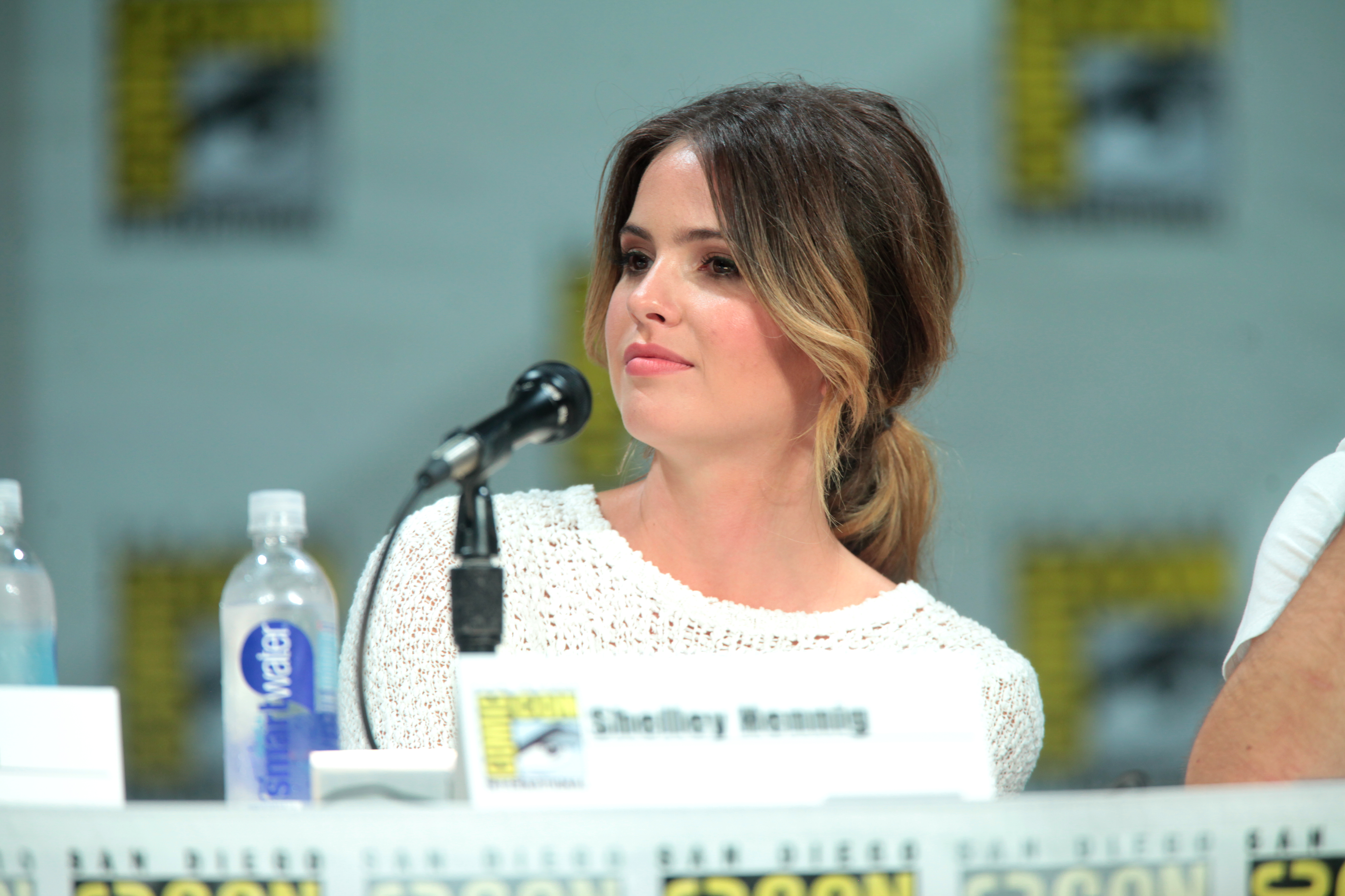 Shelley Hennig speaking at the 2014 San Diego Comic Con International, for "Teen Wolf", at the San Diego Convention Center in San Diego, California.